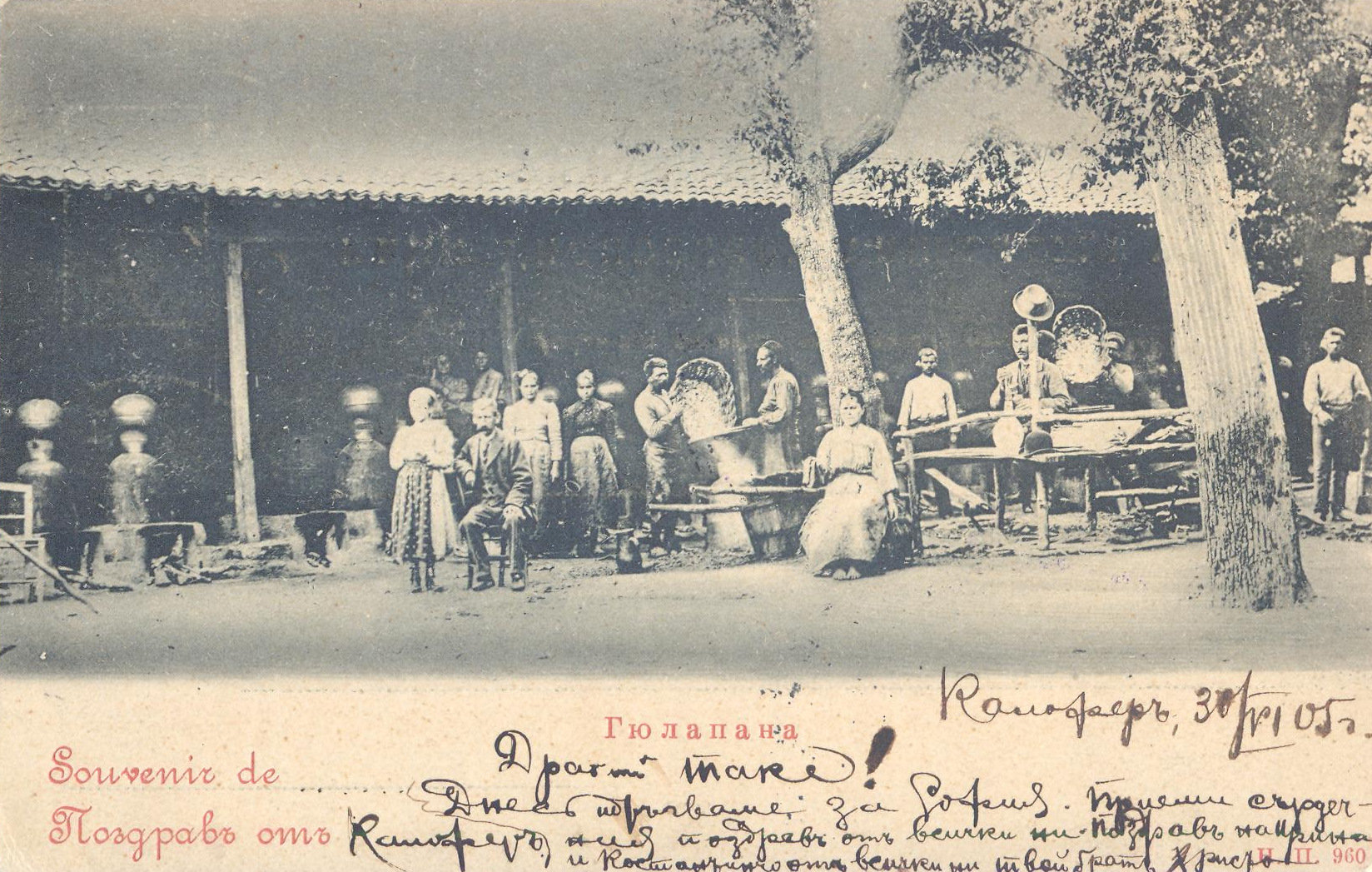 Postcard from Kalofer, Bulgaria